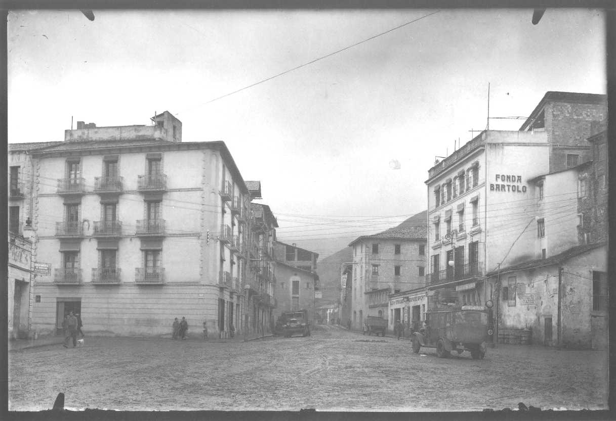 L'antiga Fonda Bartolo, prop de la plaça Catalunya de la Seu d'Urgell